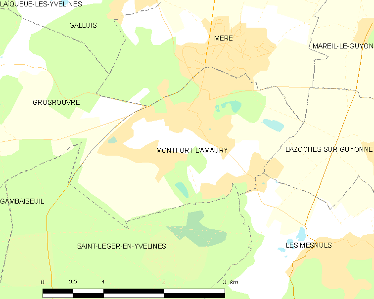 Map of French municipality Montfort-l'Amaury